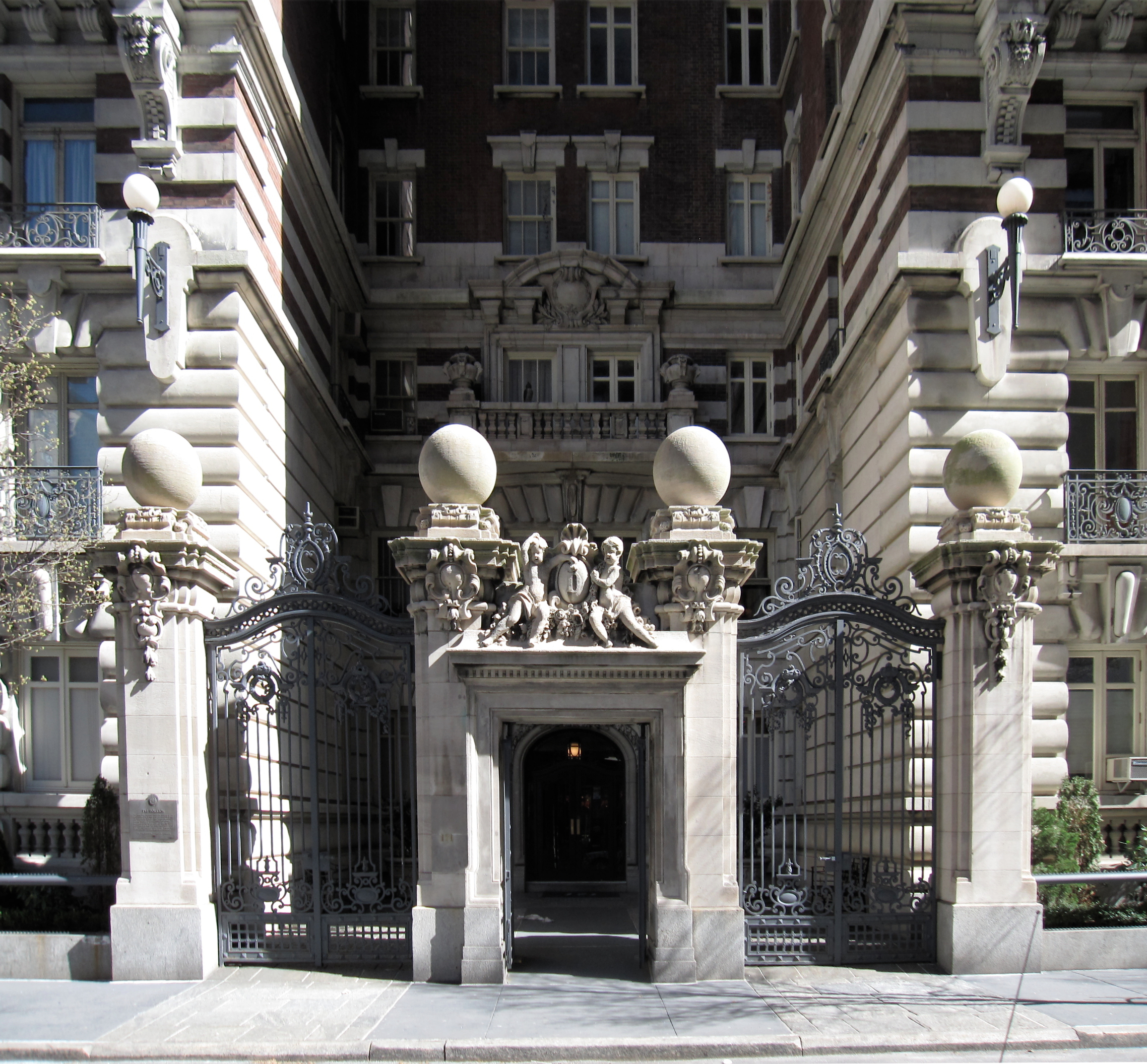 The Dorilton at 171 West 71st Street and Broadway.